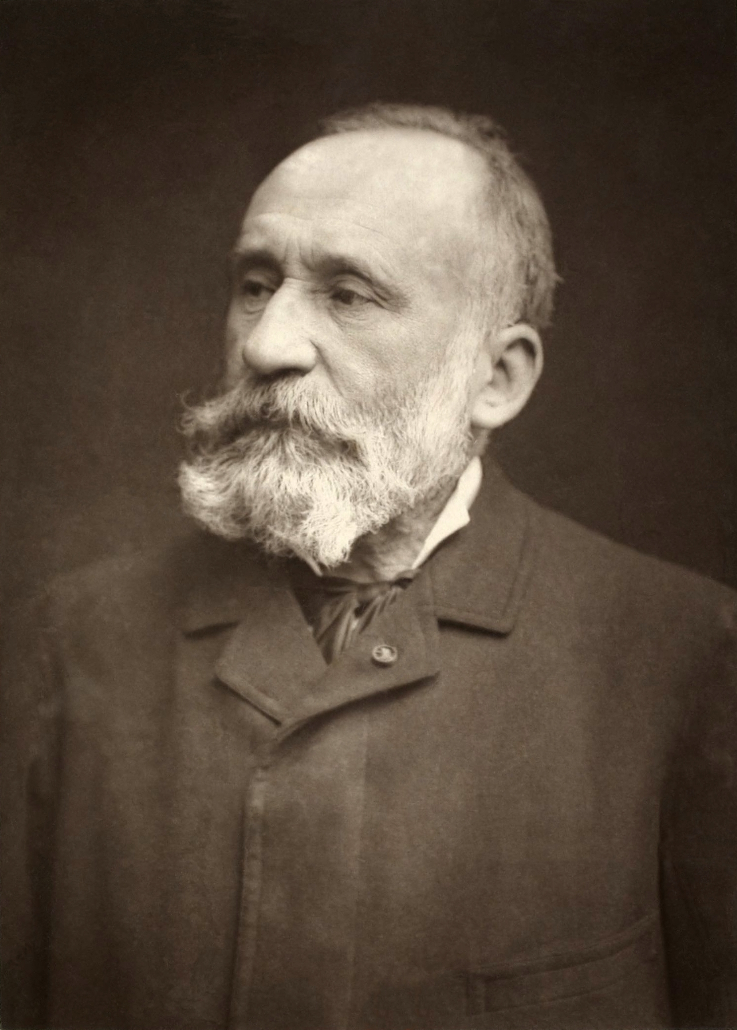 Pierre Puvis de Chavannes (1824 - 1898), french painter.